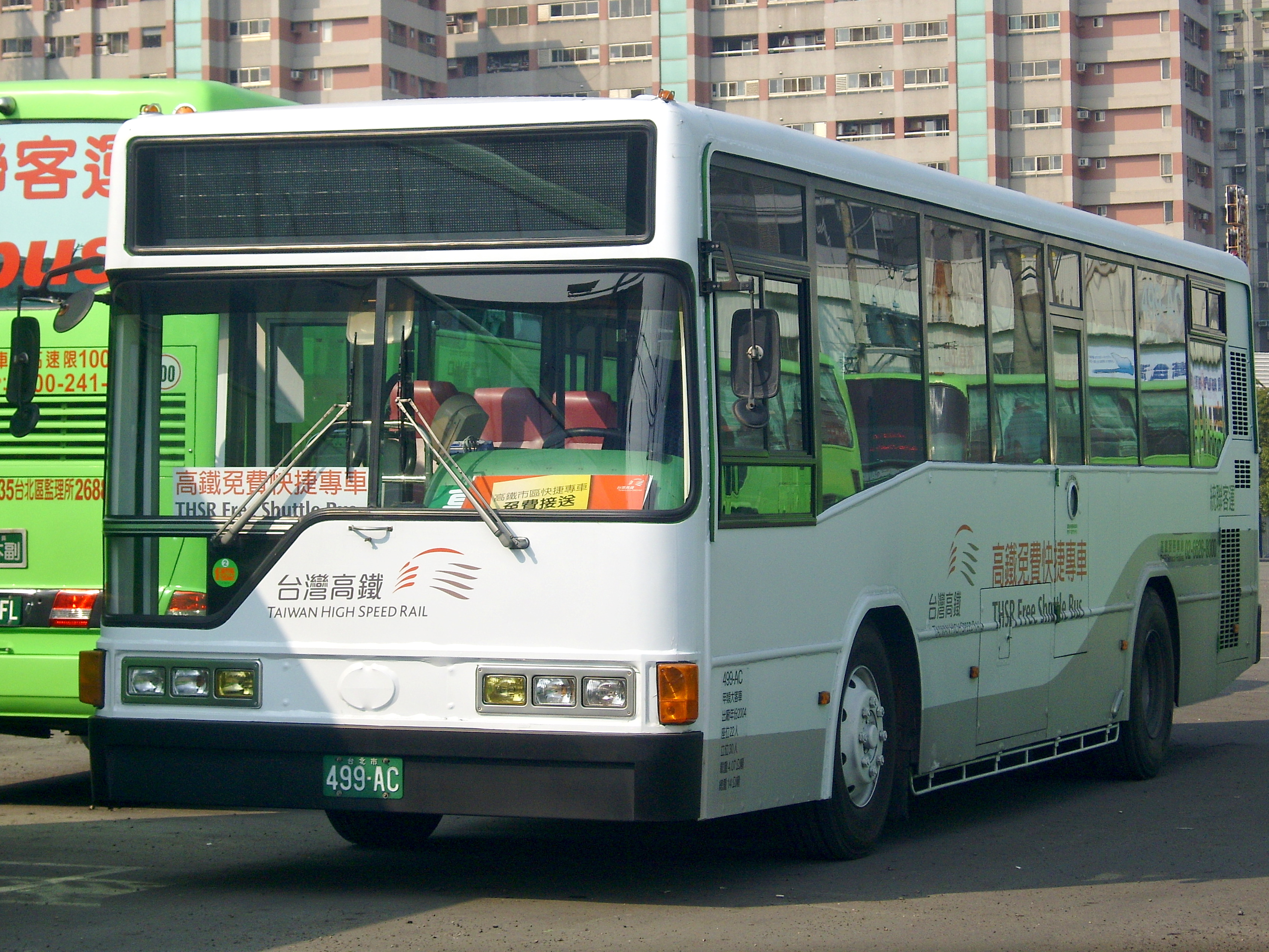 THSR Taichung Station Free Shuttle Bus by UBus.